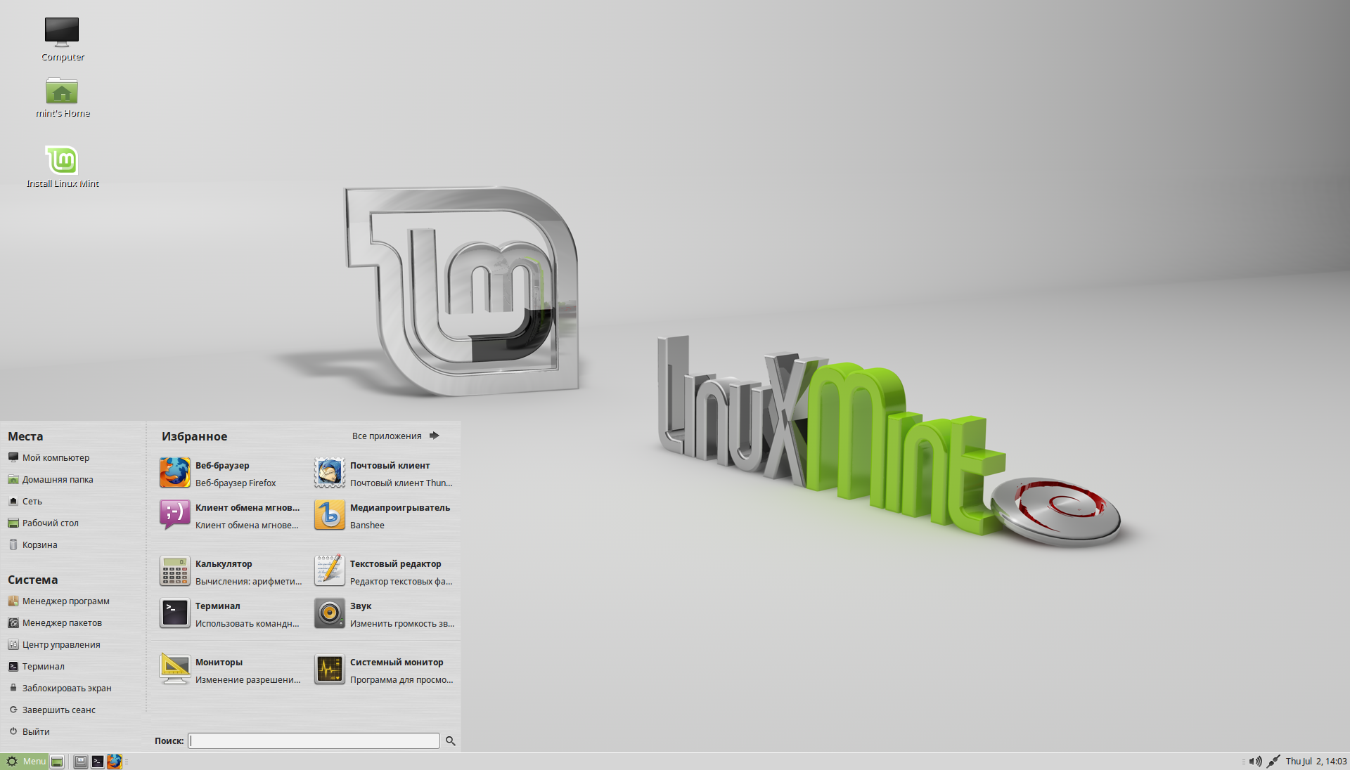 Linux Mint Debian Edition MATE 2 screenshot